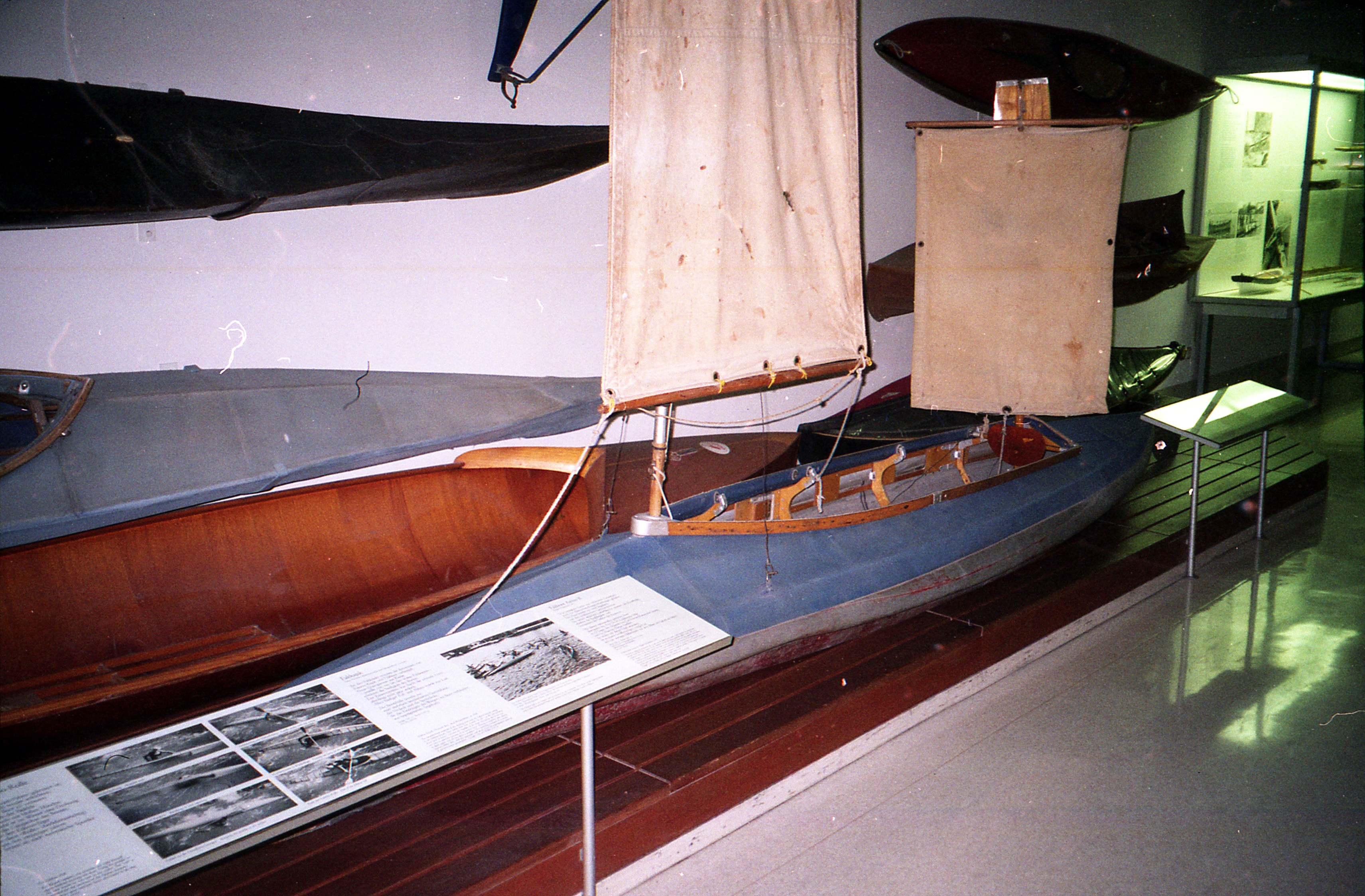 The boat, with which Hannes Lindemann crossed the Atlantic in 1956. German Museum/ Munich